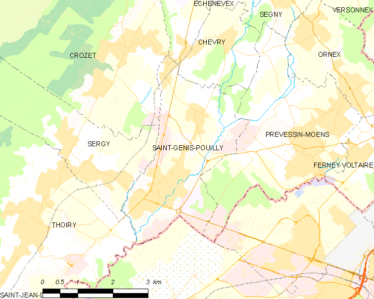 Map of French commune: Saint-Genis-Pouilly Map commune FR insee code 01354.png